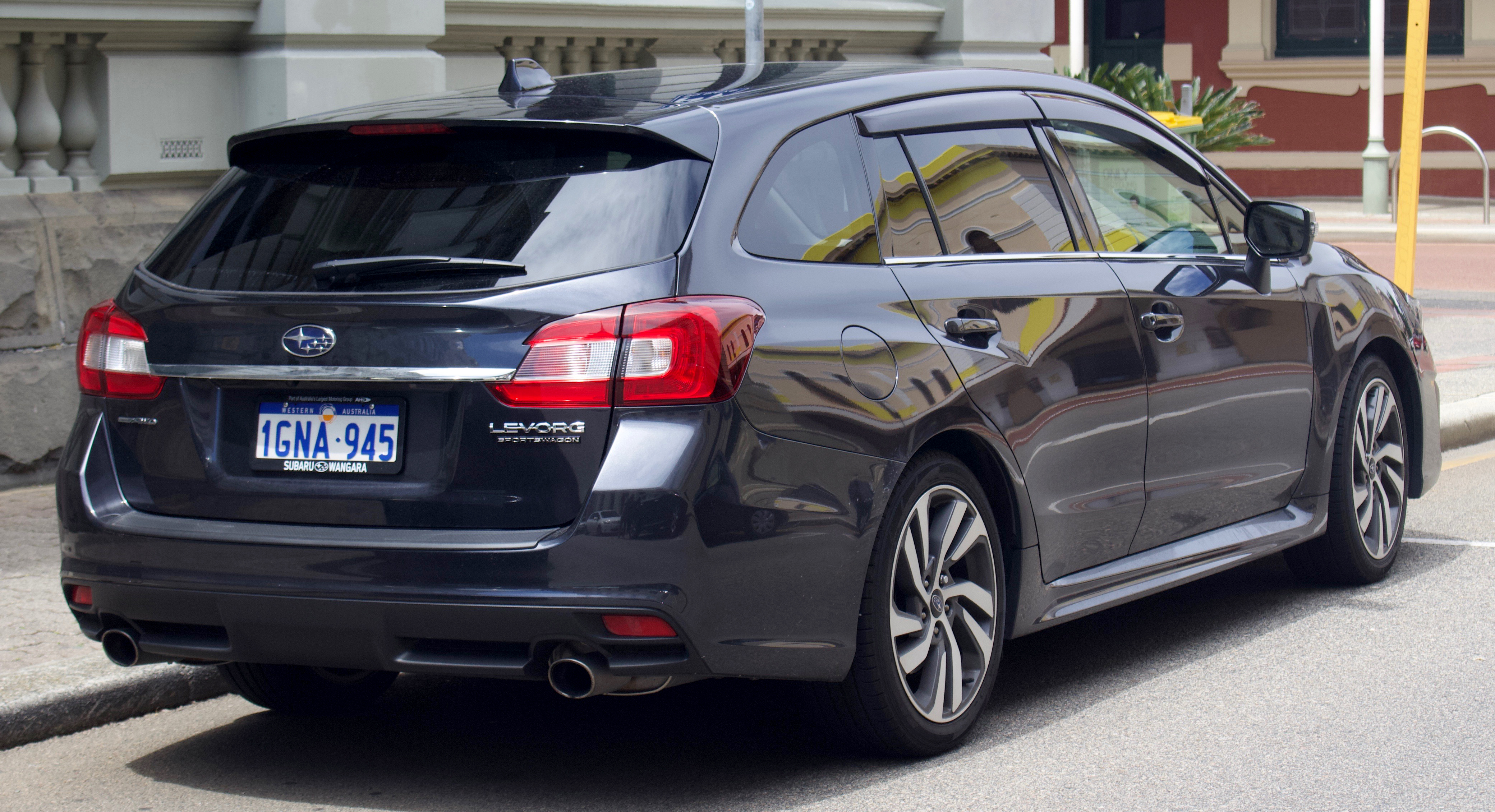 2018 Subaru Levorg (MY18) 2.0 GT-S AWD station wagon. Photographed in Fremantle, Western Australia, Australia.